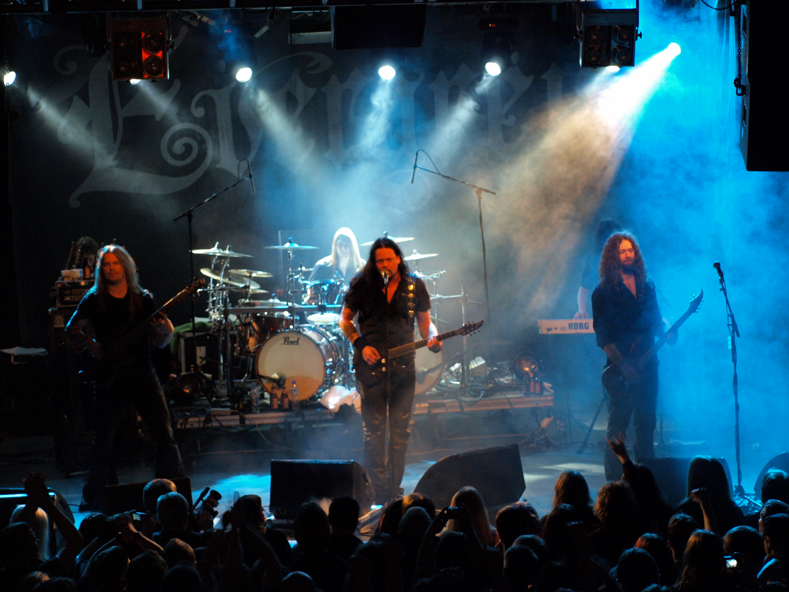 Swedish progressive metal band Evergrey live at Nosturi, Helsinki